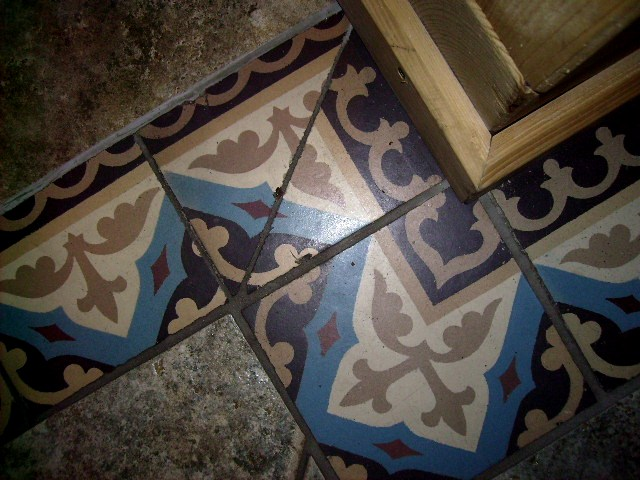 Decorated cement tiles: border & corner